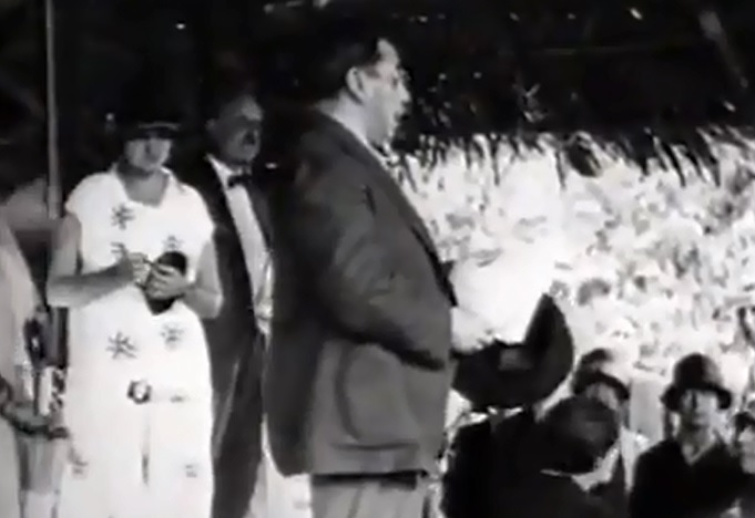 Lic. José Antonio Villacort Calderon addressing visitors to Quirigua. 1920.